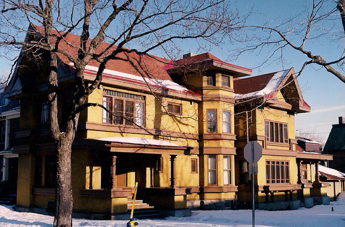 Architect: Francis Sullivan; owner; Patrick j. Powers Built 1915. S.E. corner of james and Bay streets